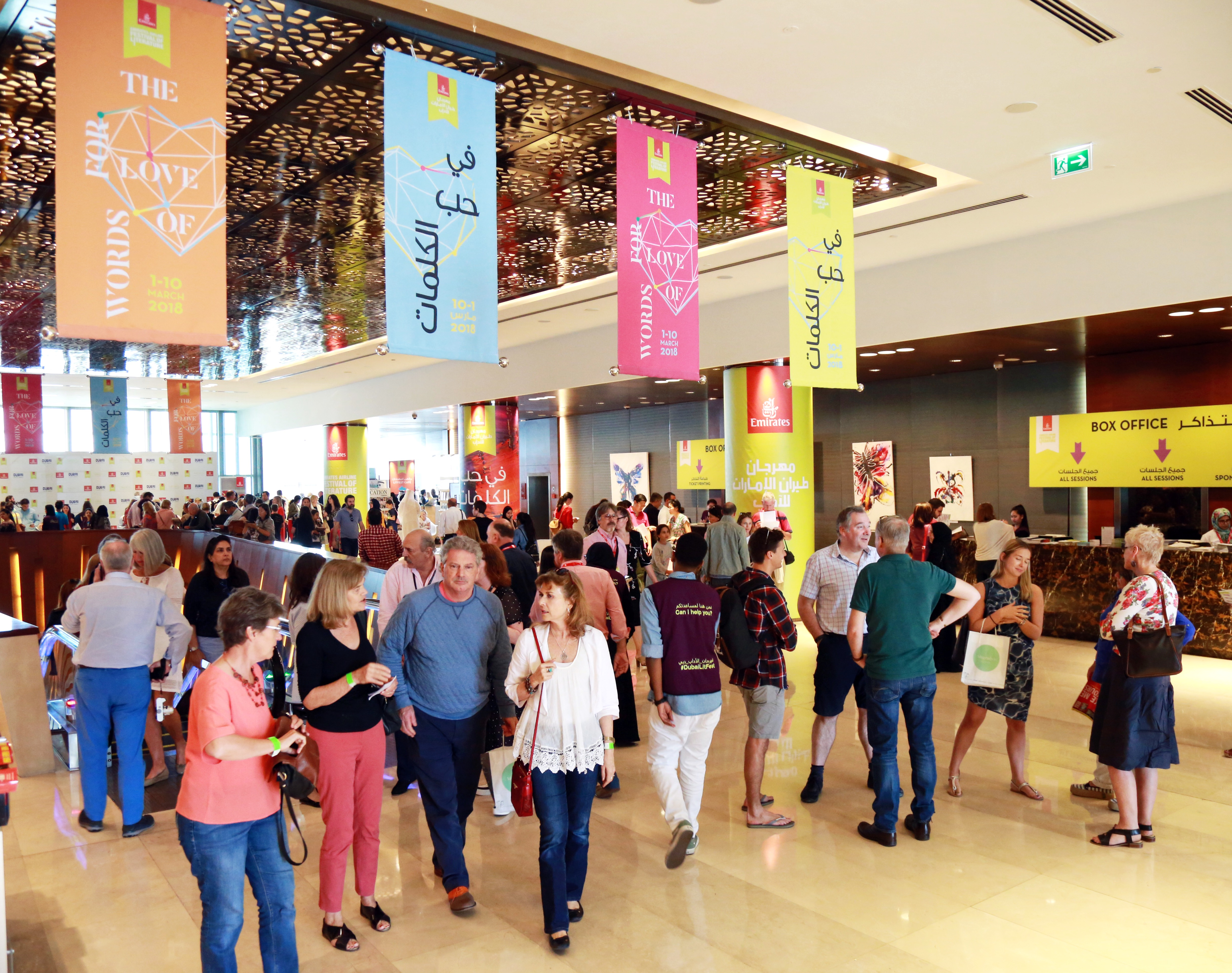 Festival crowd in the lobby